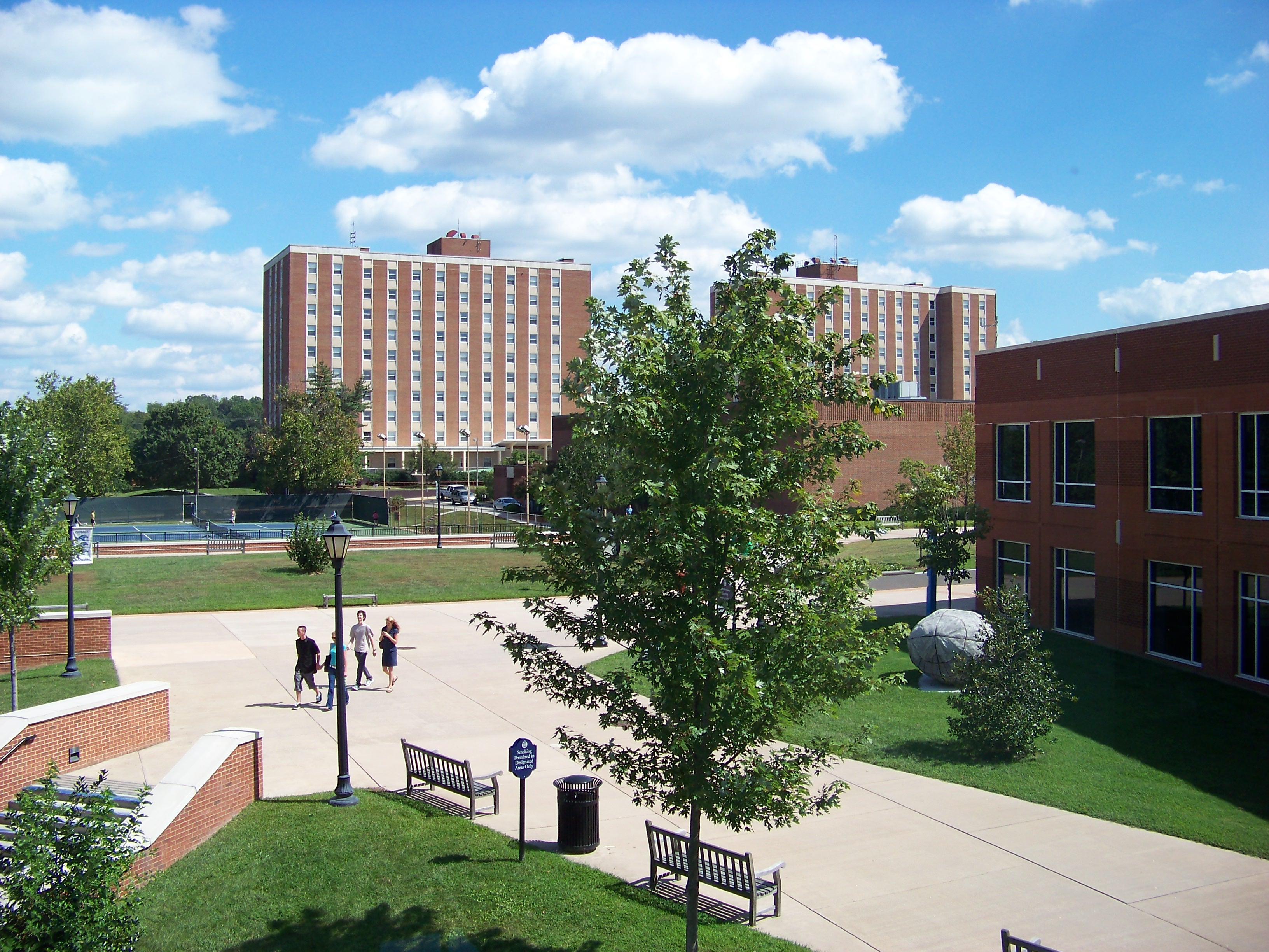 Longwood University